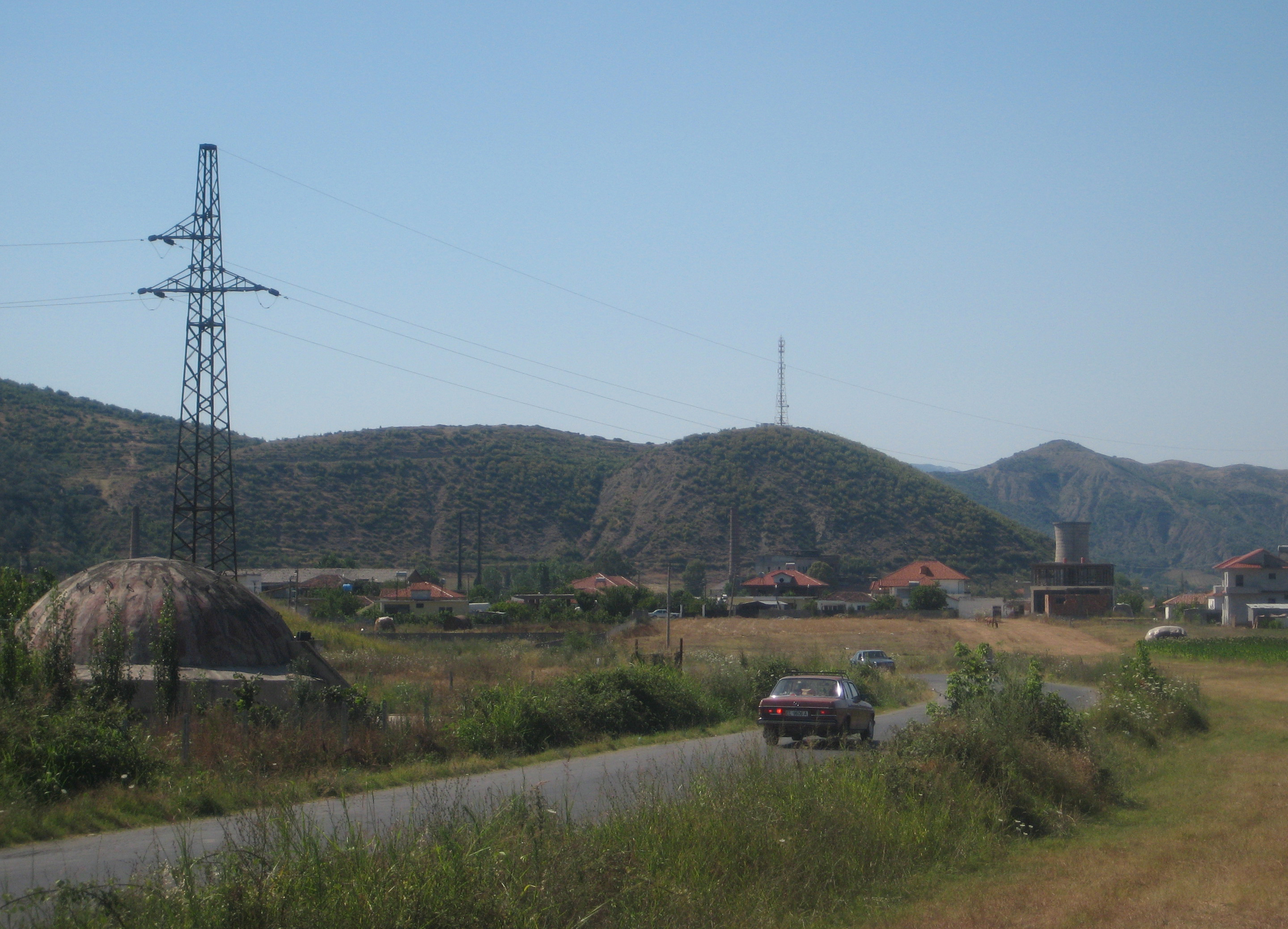 Cërriku – Albania – Looking over the plain from the city center to the old factory